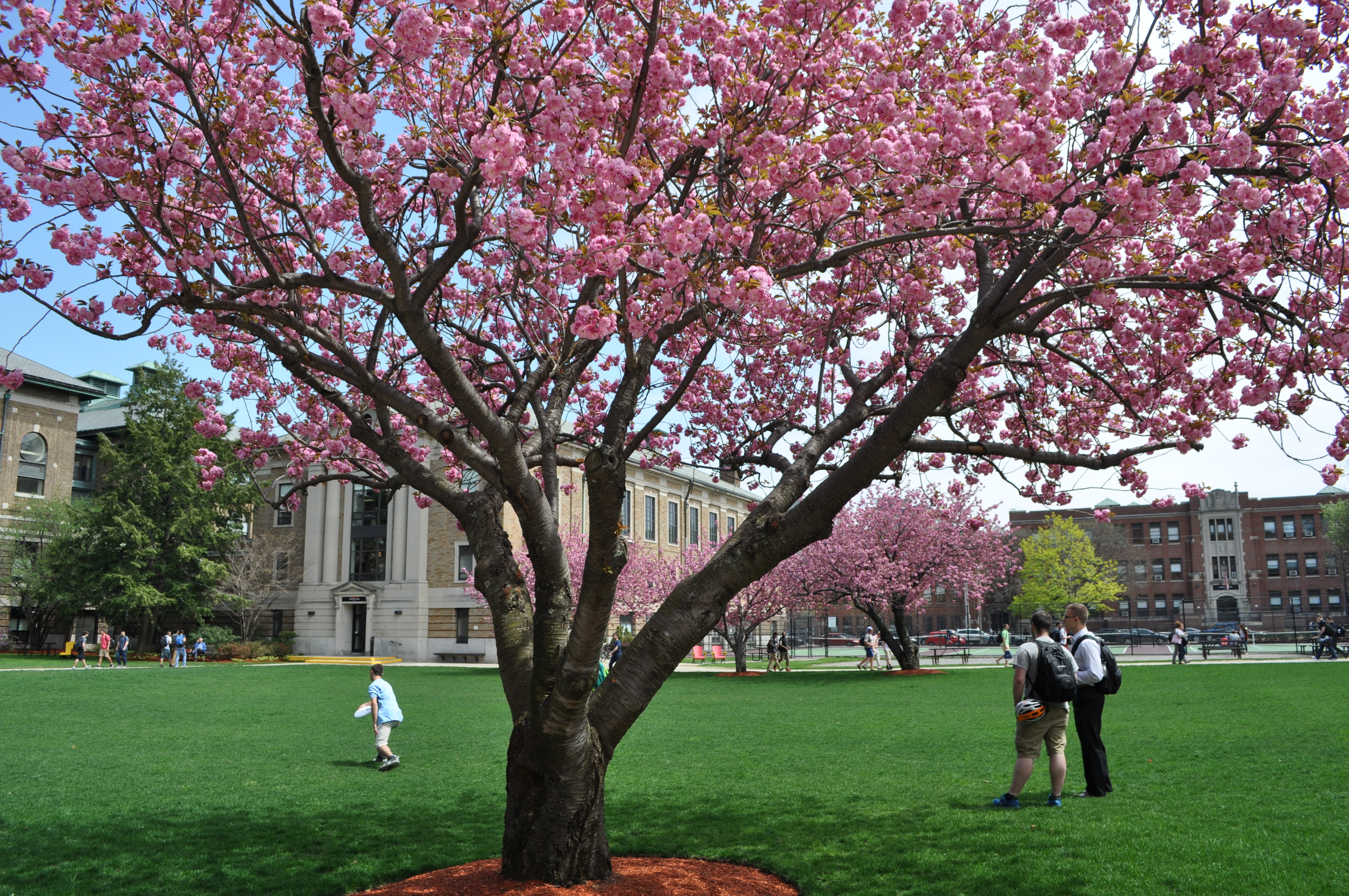 Wentworth's Quad